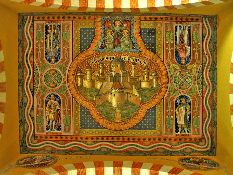 The Lutheran Ascension Church at Augusta Victoria Foundation, Jerusalem, ceiling with paintings of King Baldwin I and Baldwin II of Jerusalem, Godfrey of Bouillon and Fulk of Jerusalem